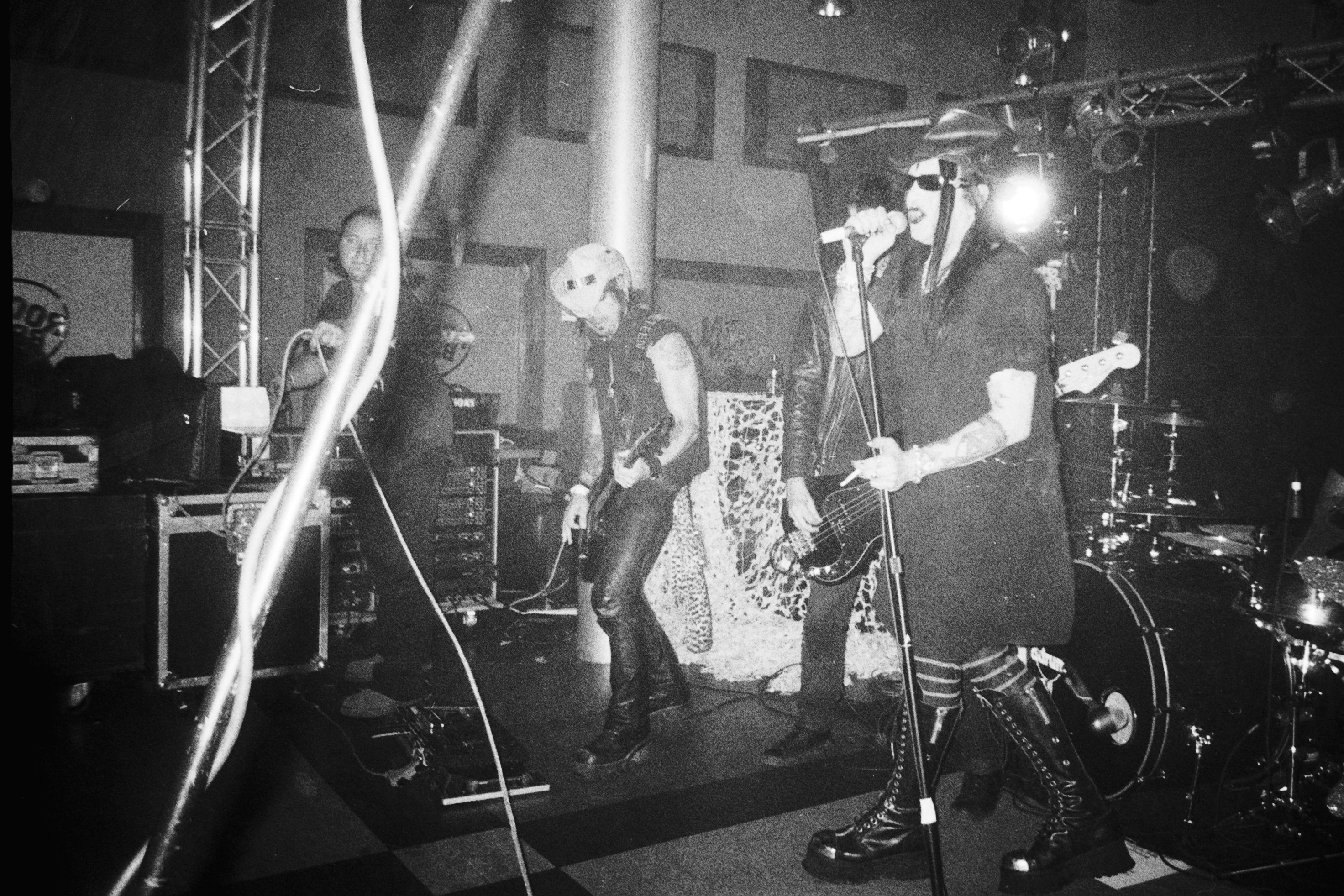 Taime Downe and Michael Thomas of Faster Pussycat